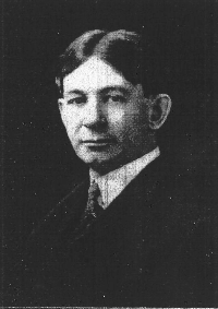 photo of John Maxwell